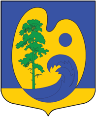 Repino (municipality in St. Petersburg), coat of arms